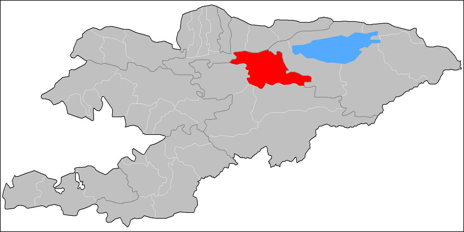 The location of the raion (district) of Kochkor in Kyrgyzstan. Based on Image:Kyrgyzstan raions.png